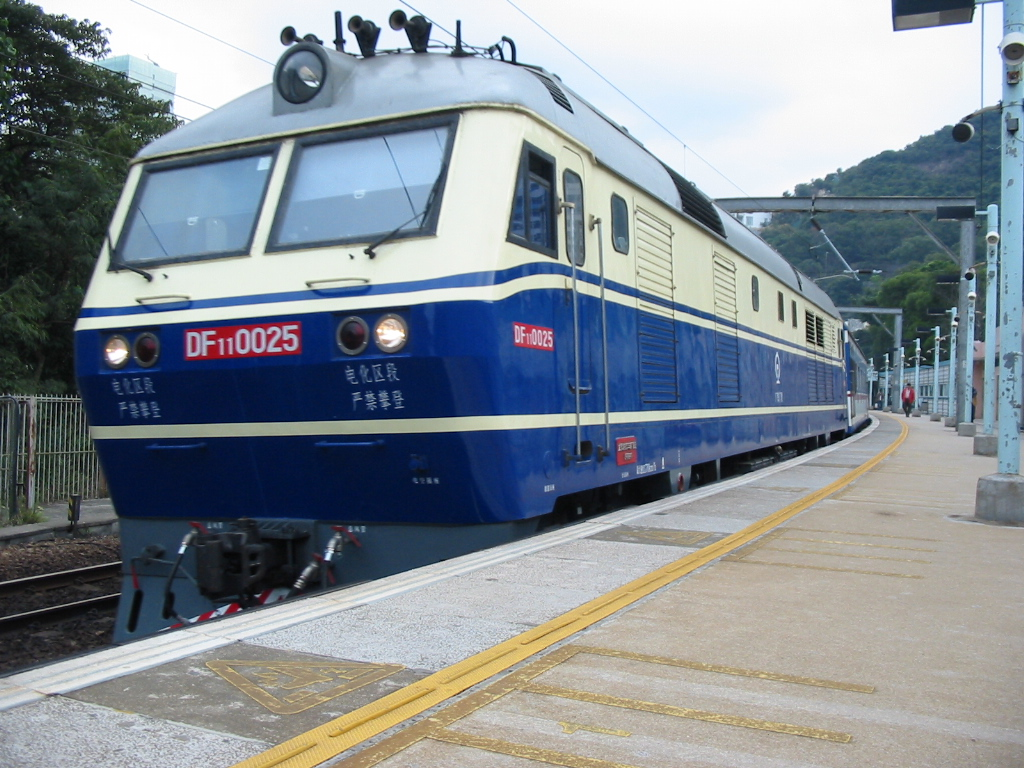 Diesel locomotive DF11-0025 passing through University station.